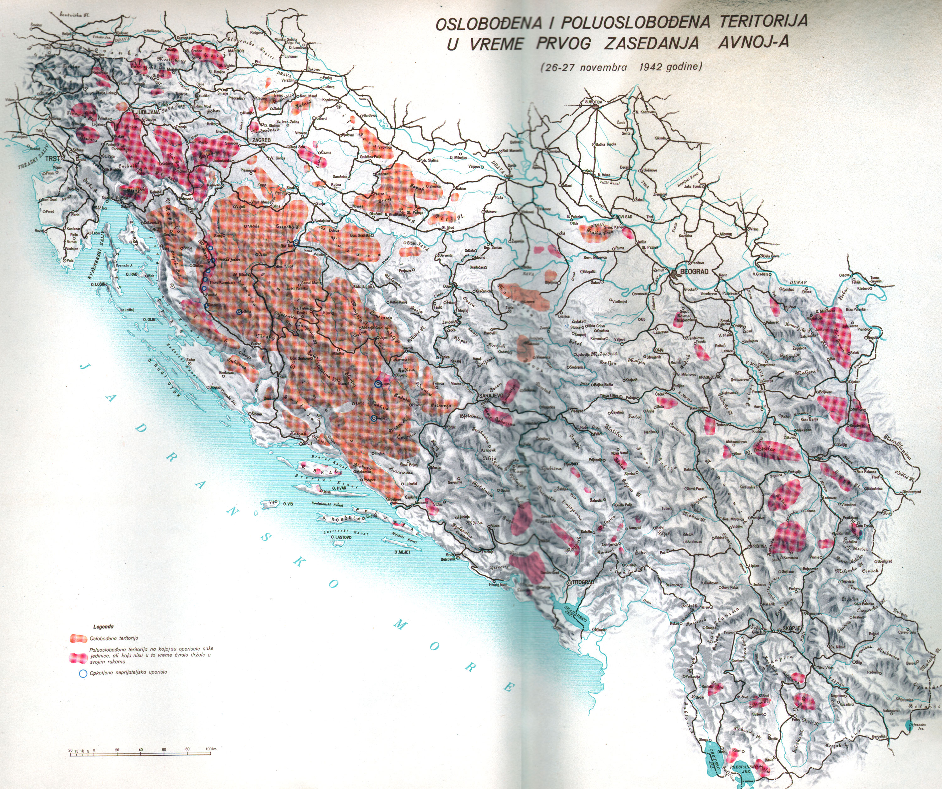 Liberated and semi-liberated territory during the first session of the Anti-Fascist Council for the People's Liberation of Yugoslavia (26-27 November 1942) Srpskohrvatski / српскохрватски: Oslobođena i poluoslobođena teritorija u vreme prvog zasedanja AVNOJ-a (26-27 novembra 1942. godine)